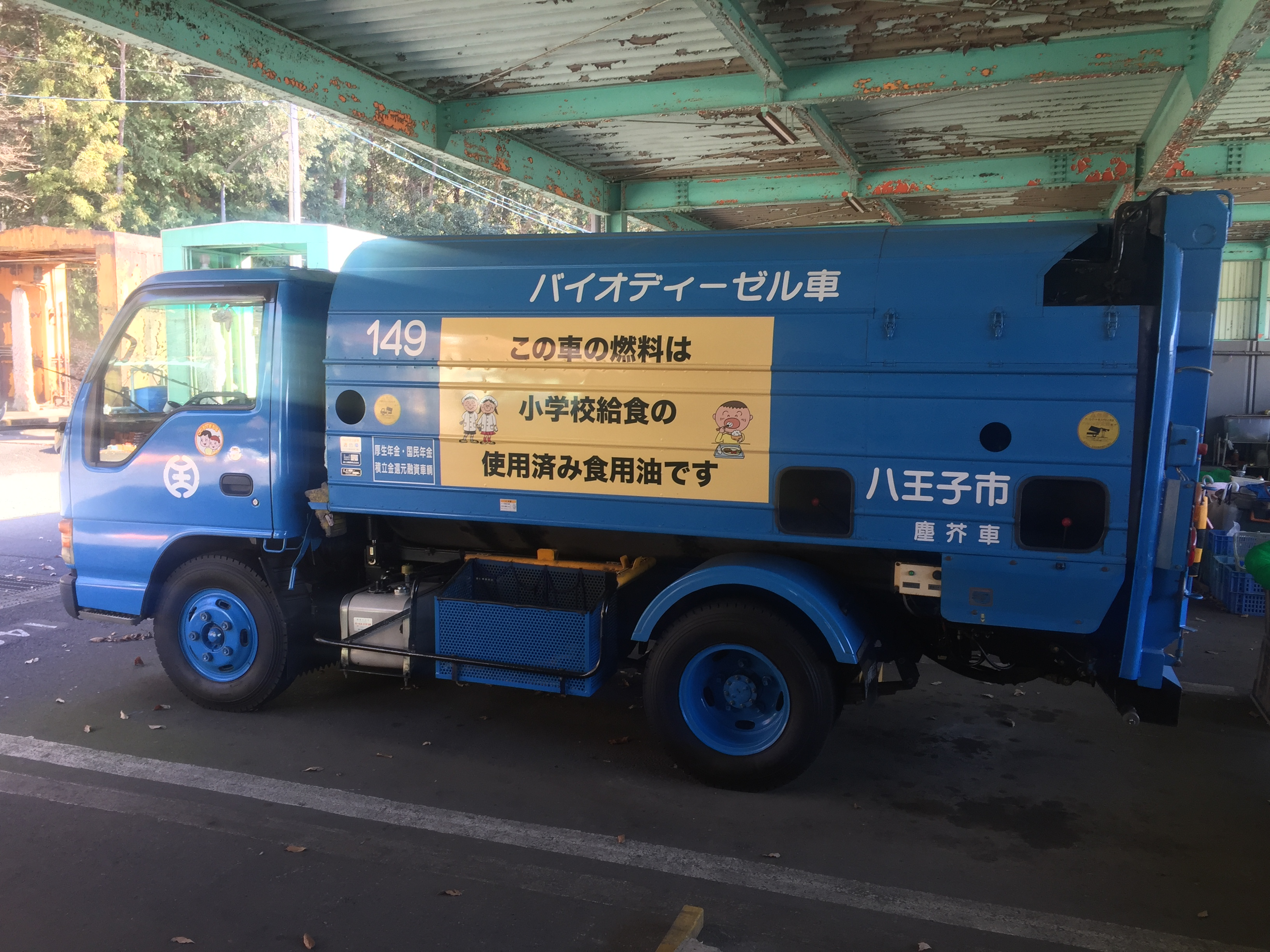 A rotating carton garbage truck that uses biodiesel fuel. (FUJICAR Rotary Press, modified Isuzu Elf) in Hachioji, Tokyo.